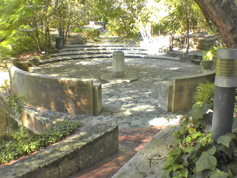 Photograph of the sundail near the Sunkern Garden at UWA.